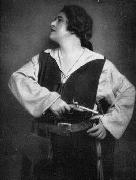 German opera singer Lotte Lehmann (1888-1976) in Beethoven's Fidelio